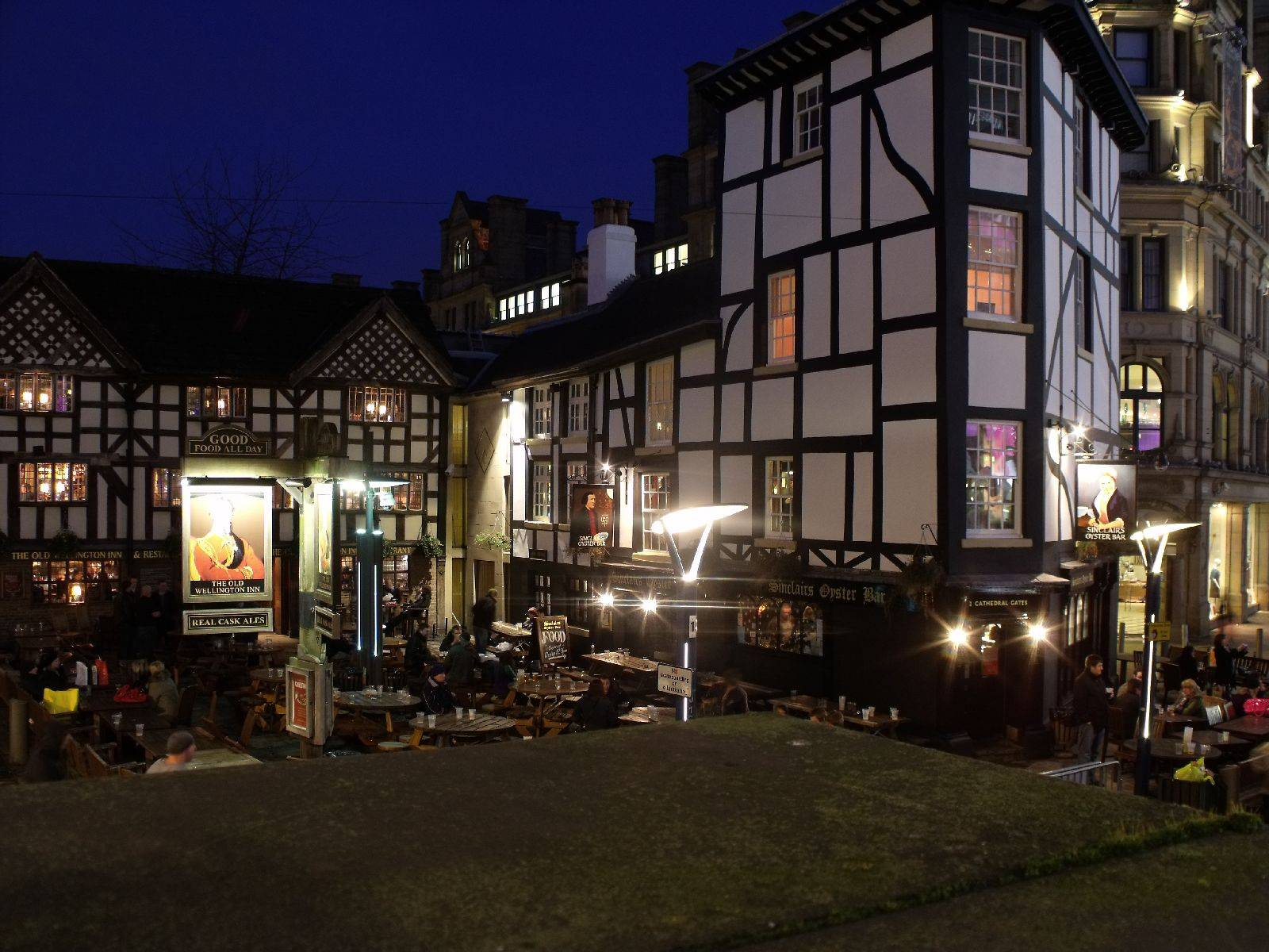 Shambles Square at night in England, UK.